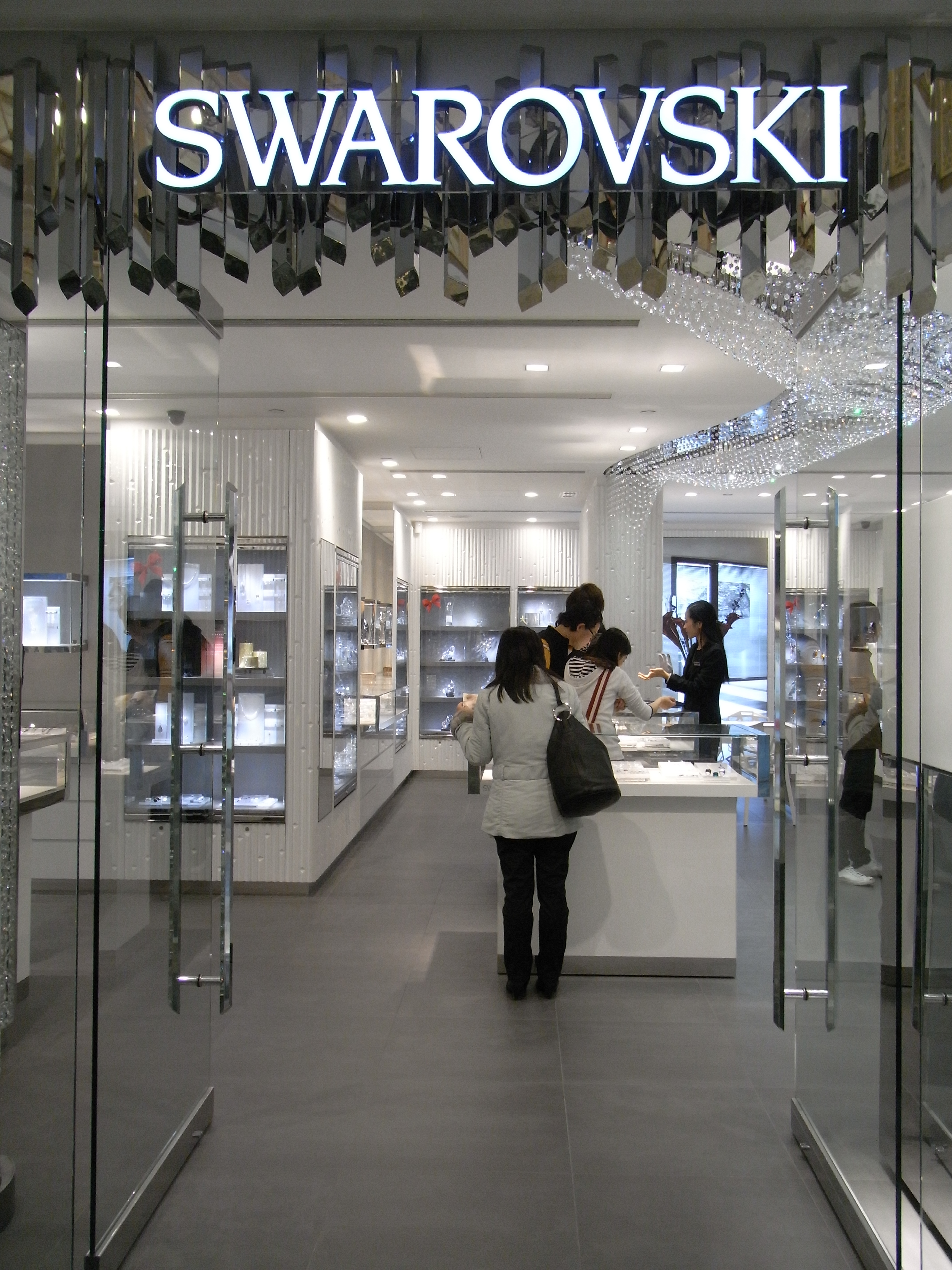 銅鑼灣名店坊商場